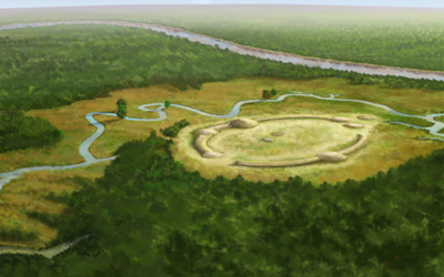 Artists conception of Watson Brake, an archaeological site in Ouachita Parish, Louisiana that dates from the Archaic period. The oldest earthwork in North America, it was built and occupied 3500 BCE, approximately 5400 years ago.